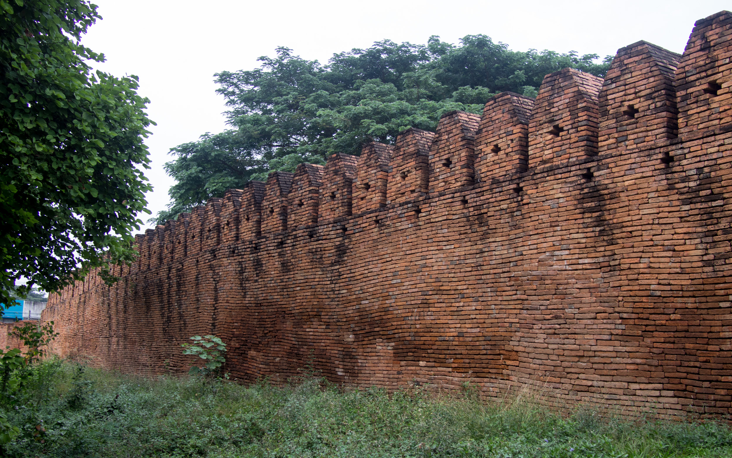 A preserved section of Nan's city wall seen from the outside.